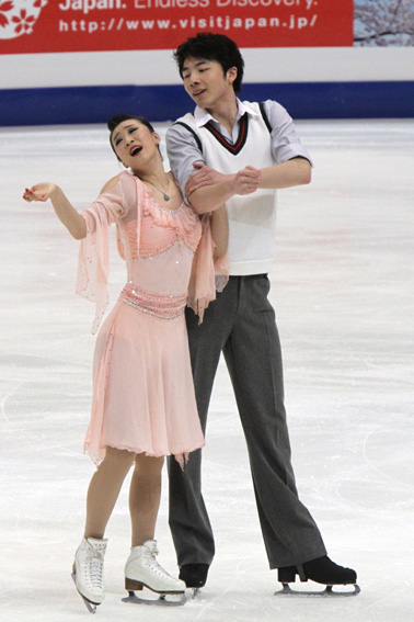 Huang Xintong and Zheng Xun at the 2011 Four Continents Championships.